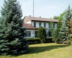 A Krasnystaw Forest Inspectorate